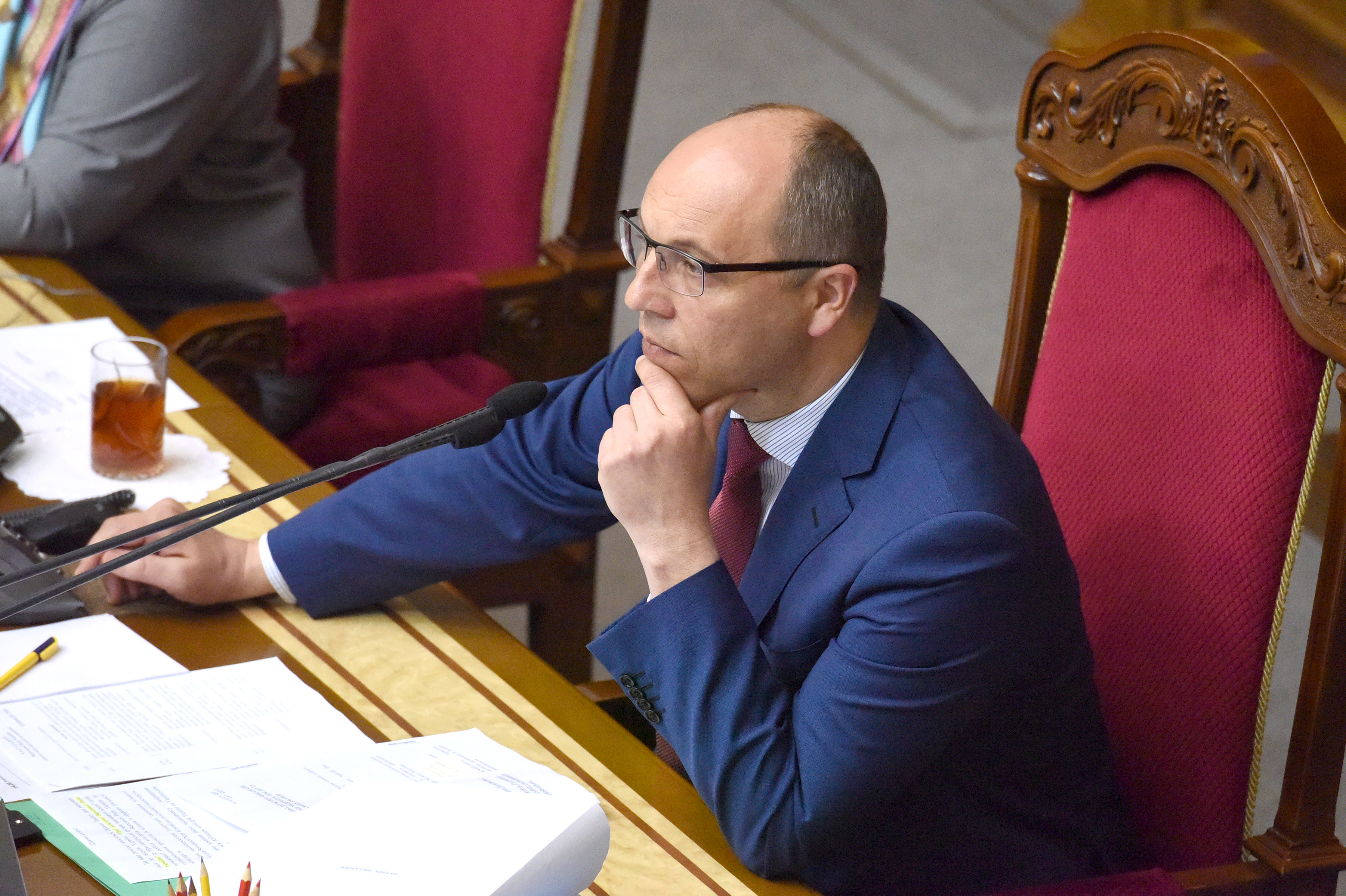 PARLIAMENT OF UKRAINE, 2017